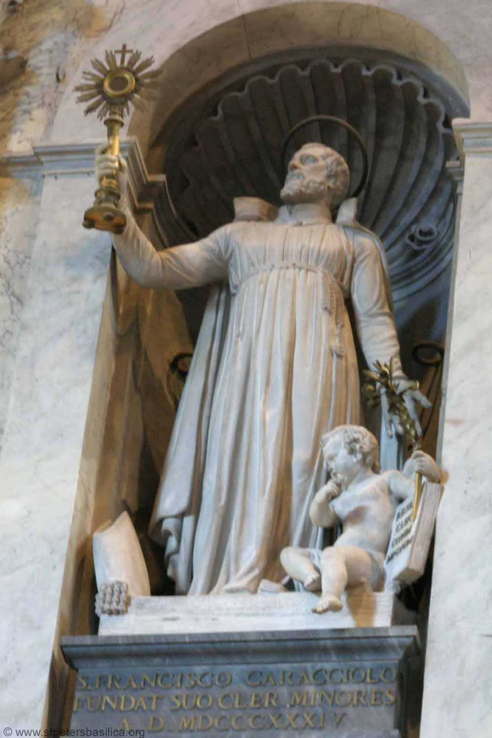 St. Francis Caracciolo's statue at St. Peter's Basilica (Vatican), by Laboureur and Fraccaroli (1834)